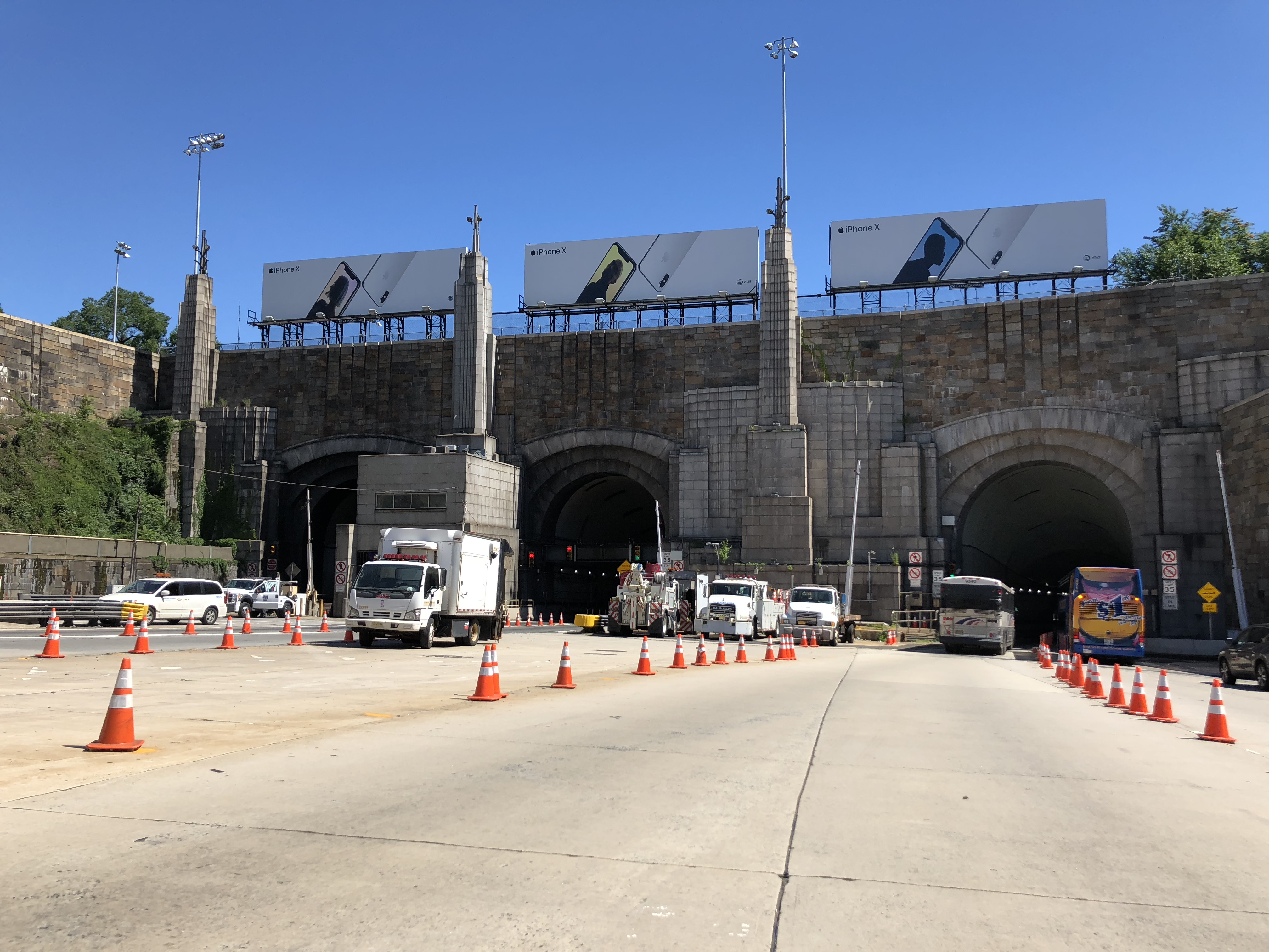 View east along New Jersey State Route 495 (Lincoln Tunnel Approach) at the western entrance of the Lincoln Tunnel in Weehawken Township, Hudson County, New Jersey